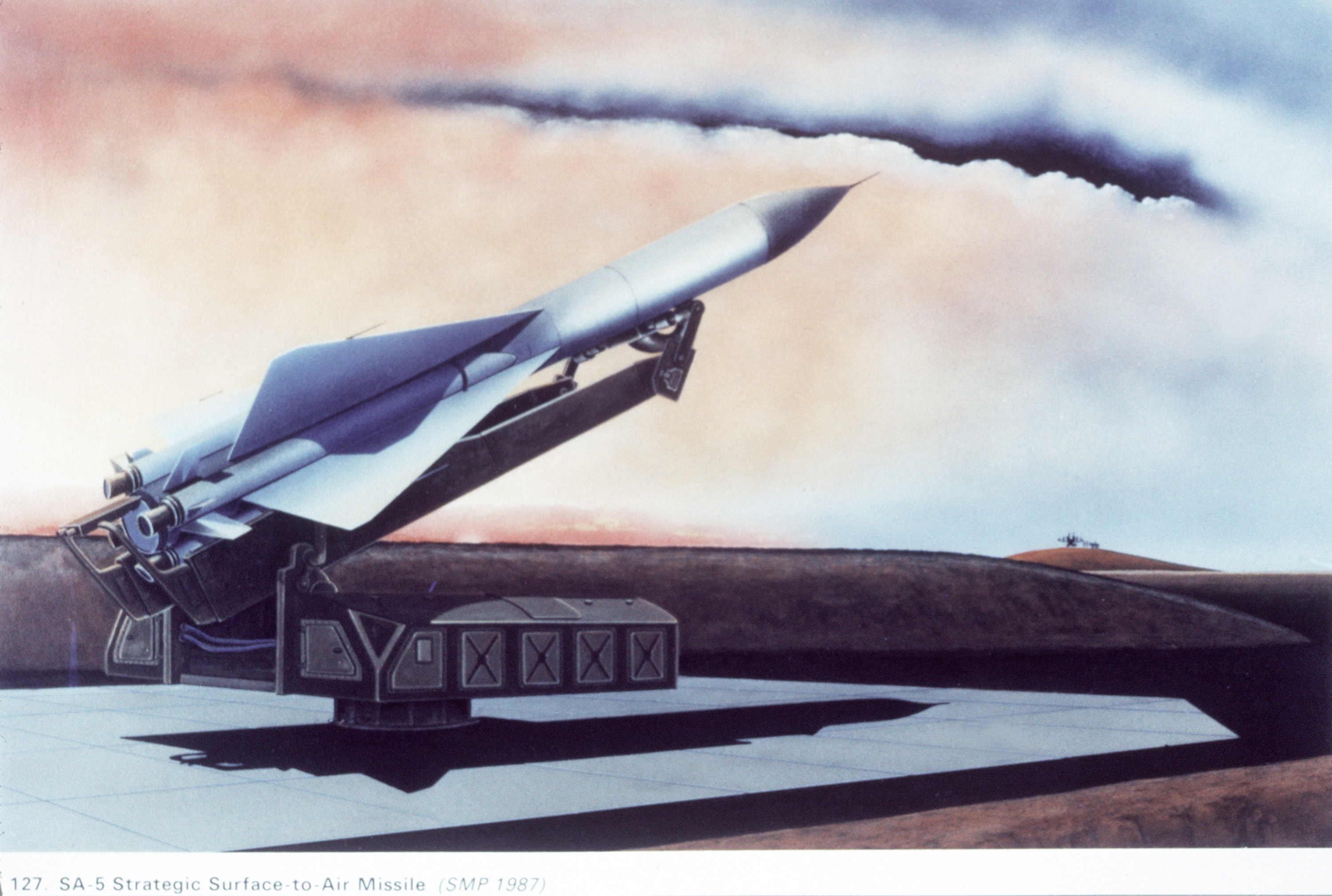 SA-5 surface-to-air missiles for Libya were among thousands of tons of weaponry shipped by the Soviet Union to its client states in the 1980s. In return for military and political support to countries such as Libya and Syria, the Soviets were able to advance their political-military objectives and gained access to military facilities in the region.